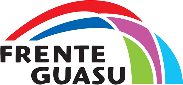 Logo of Frente Guasú, a Paraguayan political coalition.